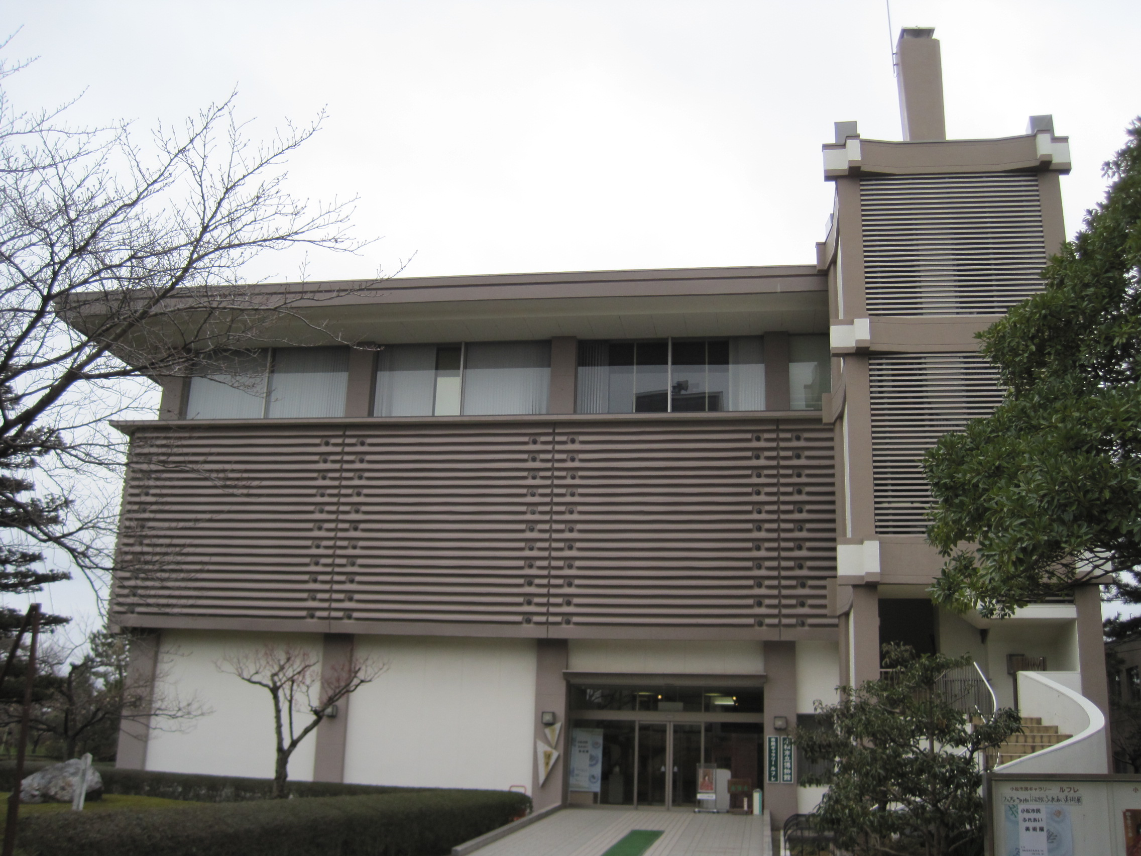 Komatsu Municipal Museum(Komatsu city, Ishikawa prefecture, Japan)